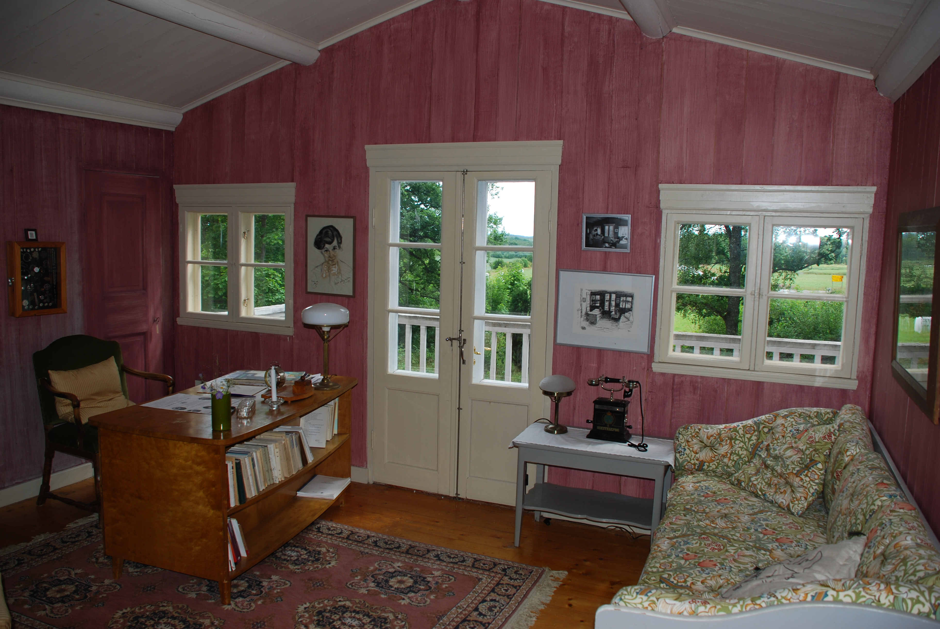 Study of Swedish author Elin Wägner in "Lilla Björka" in Berg in Småland